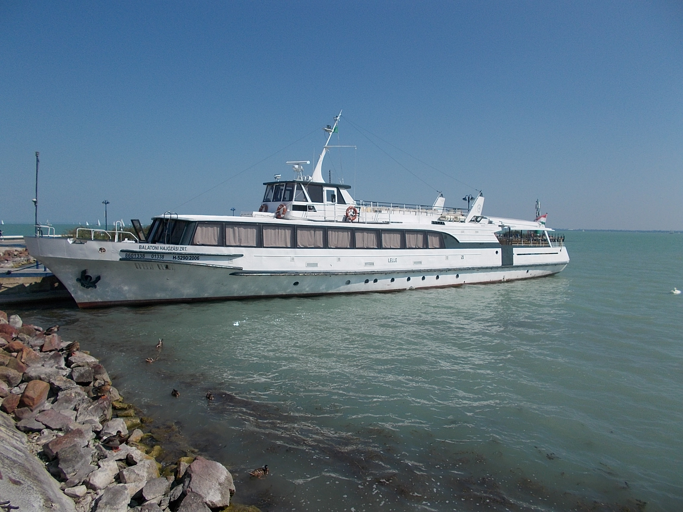 Port of Tihany. Lelle (ship, 1978). 1430 (ALEKSANDR GRIN) class, coaster passenger ship. Built: 1978, Ilyichevsk, SU, #70. Rebuilt: 2002, Siófok, HU. - Tihany, Veszprém County, Hungary